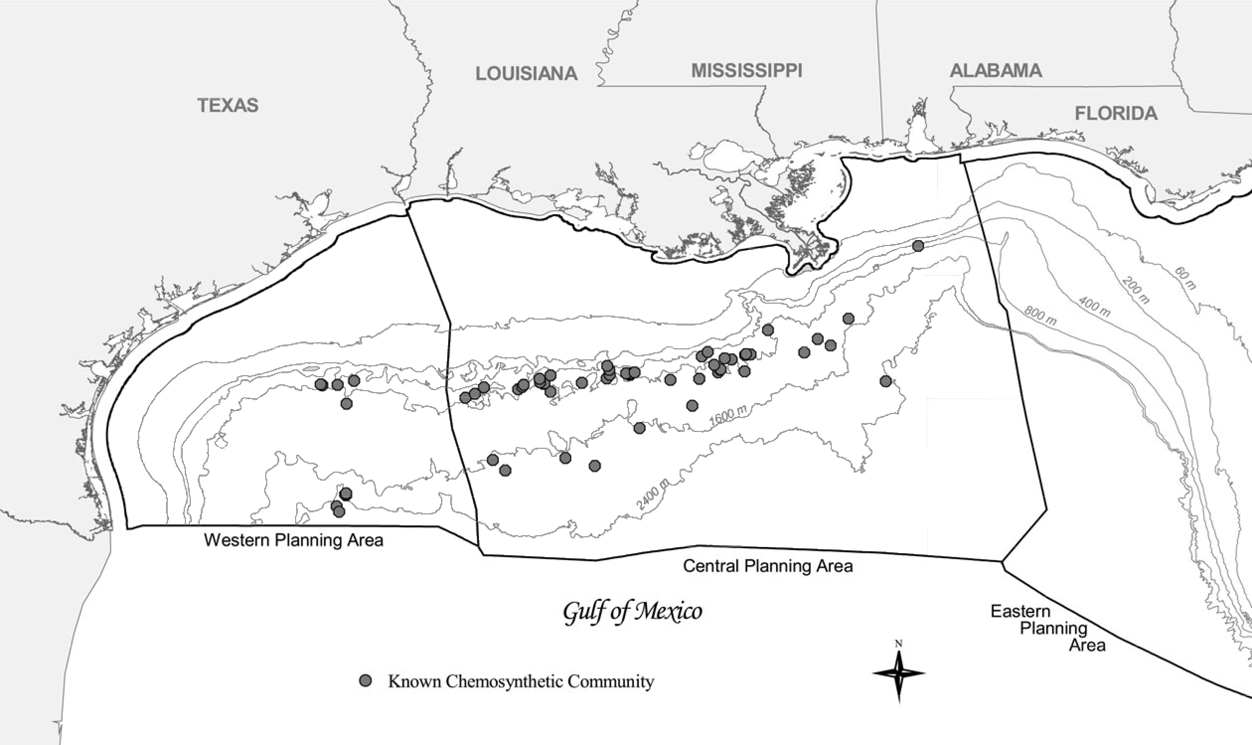 Map of northern part of Gulf of Mexico showing locations of its chemosynthetic communities (around cold seeps) known in 2006.